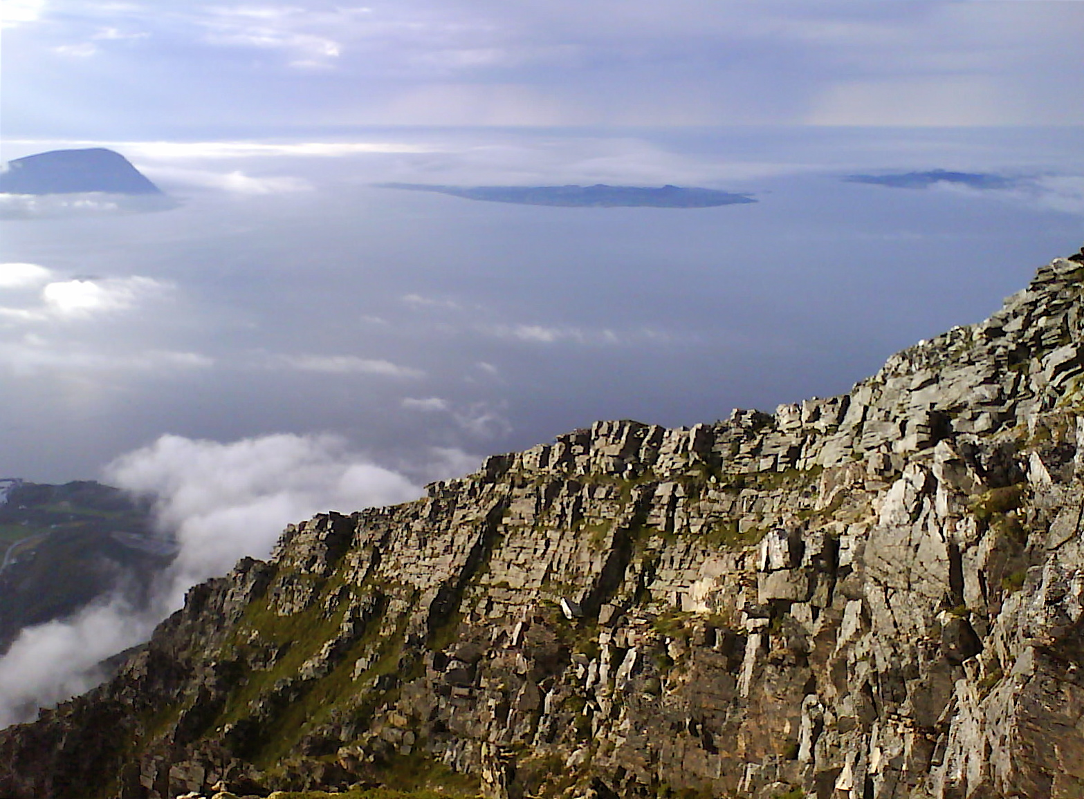 View from the top of the mountain Hellandshornet.